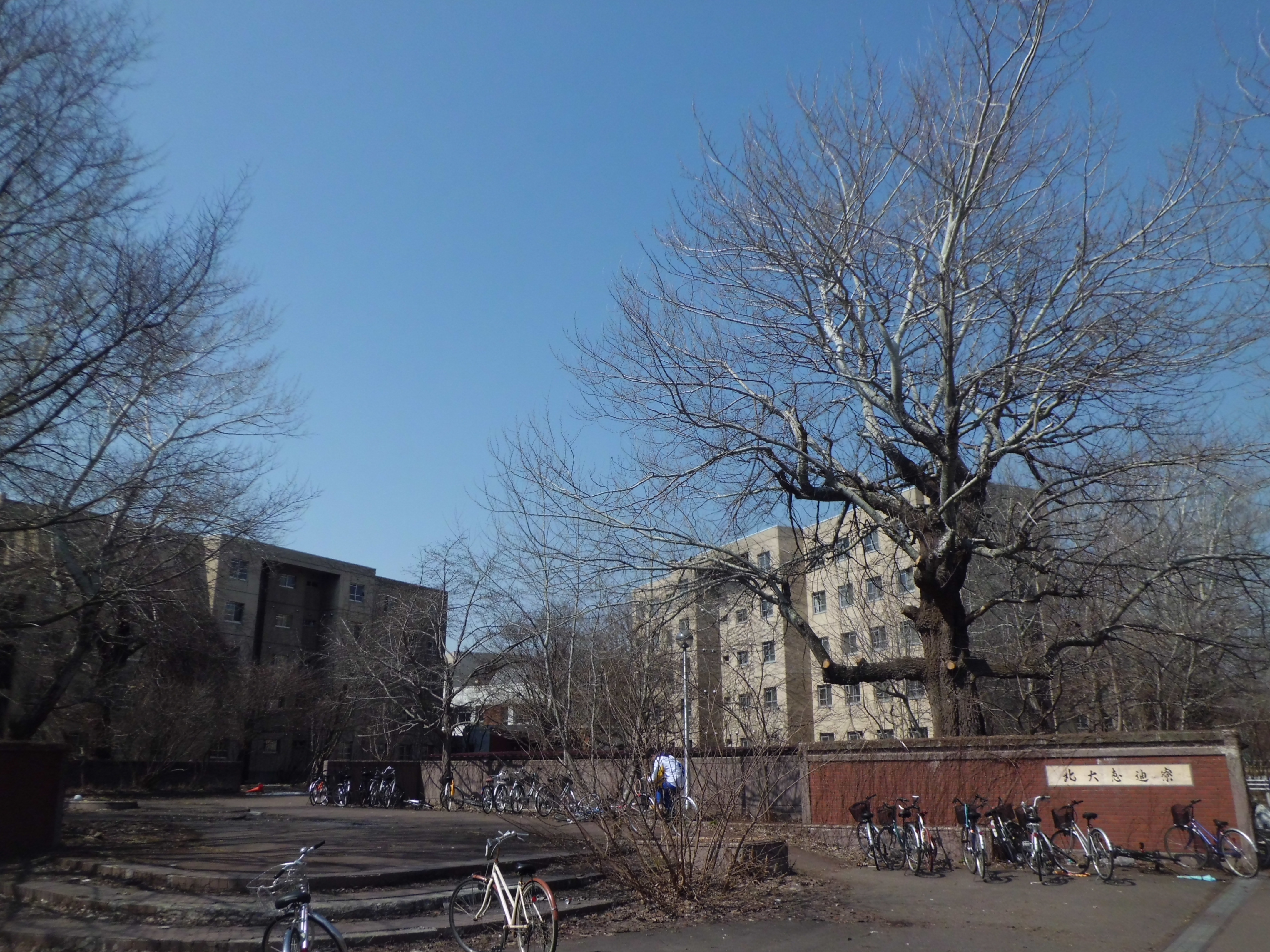 Front entrance of Keiteki Dormitory in Hokkaido University